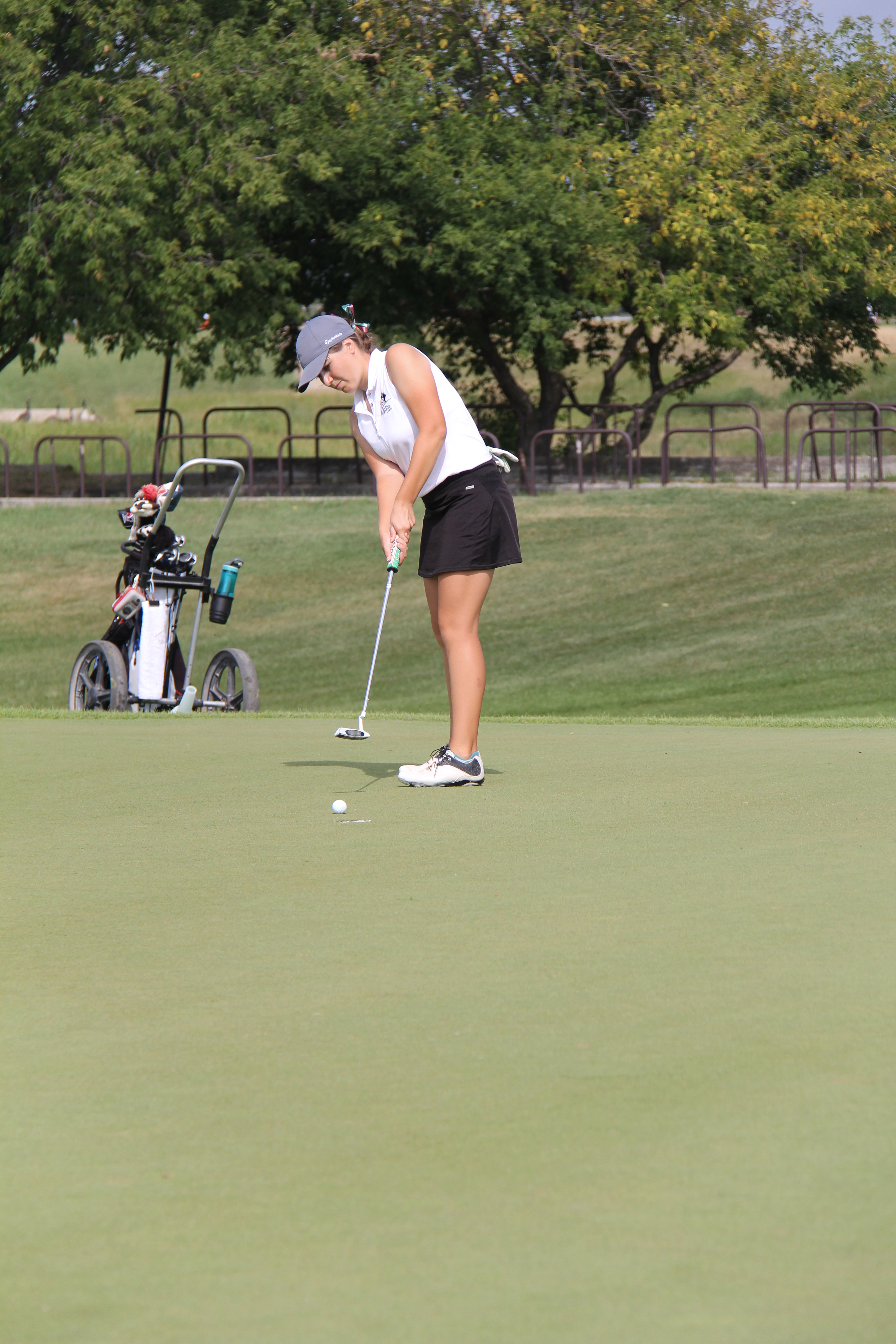 2017-08-08-MattBedard_Golf_Women-16